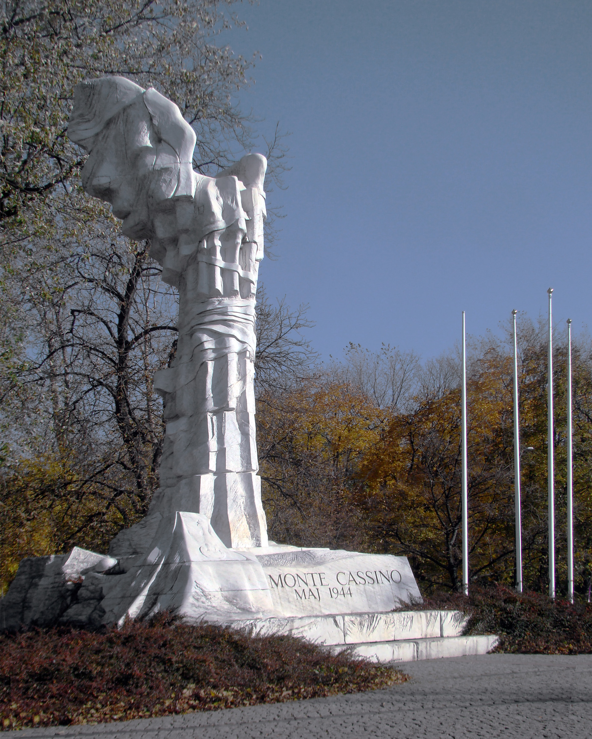 Monte Cassino Monument in Warsaw